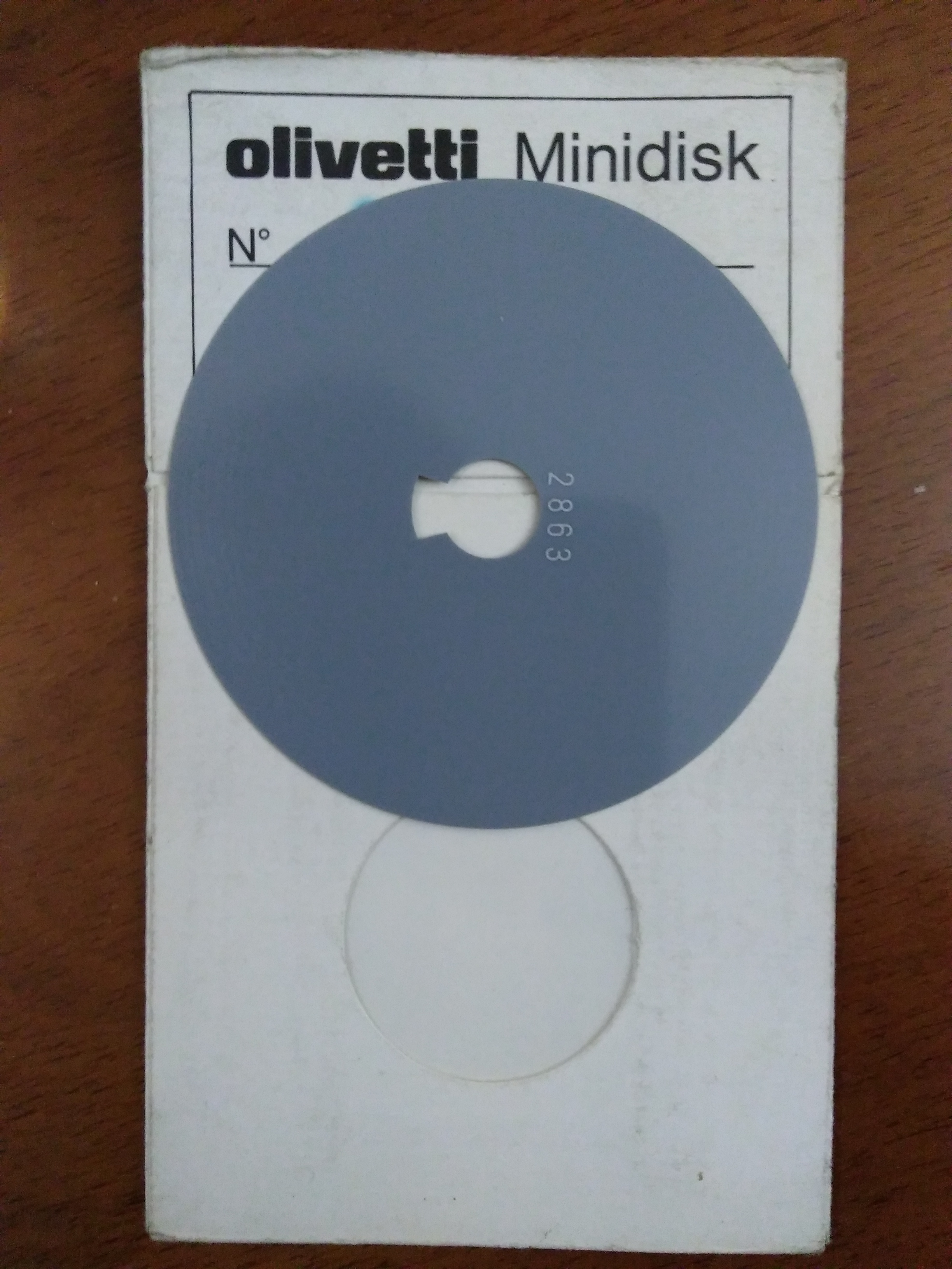 An Olivetti Minidisc